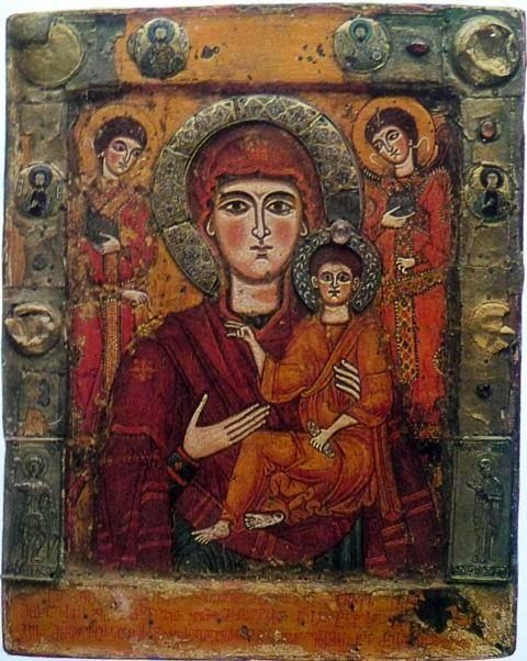 Ise Tsilkneli